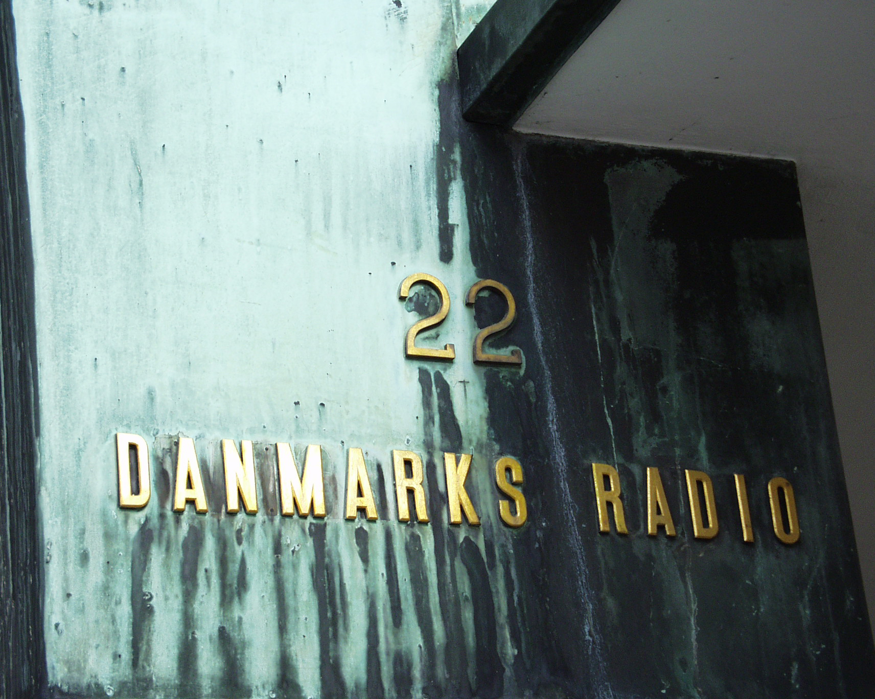 Sign at entrance of the concert hall Radiohuset, the concert hall of DR, the former national broadcaster in Denmark